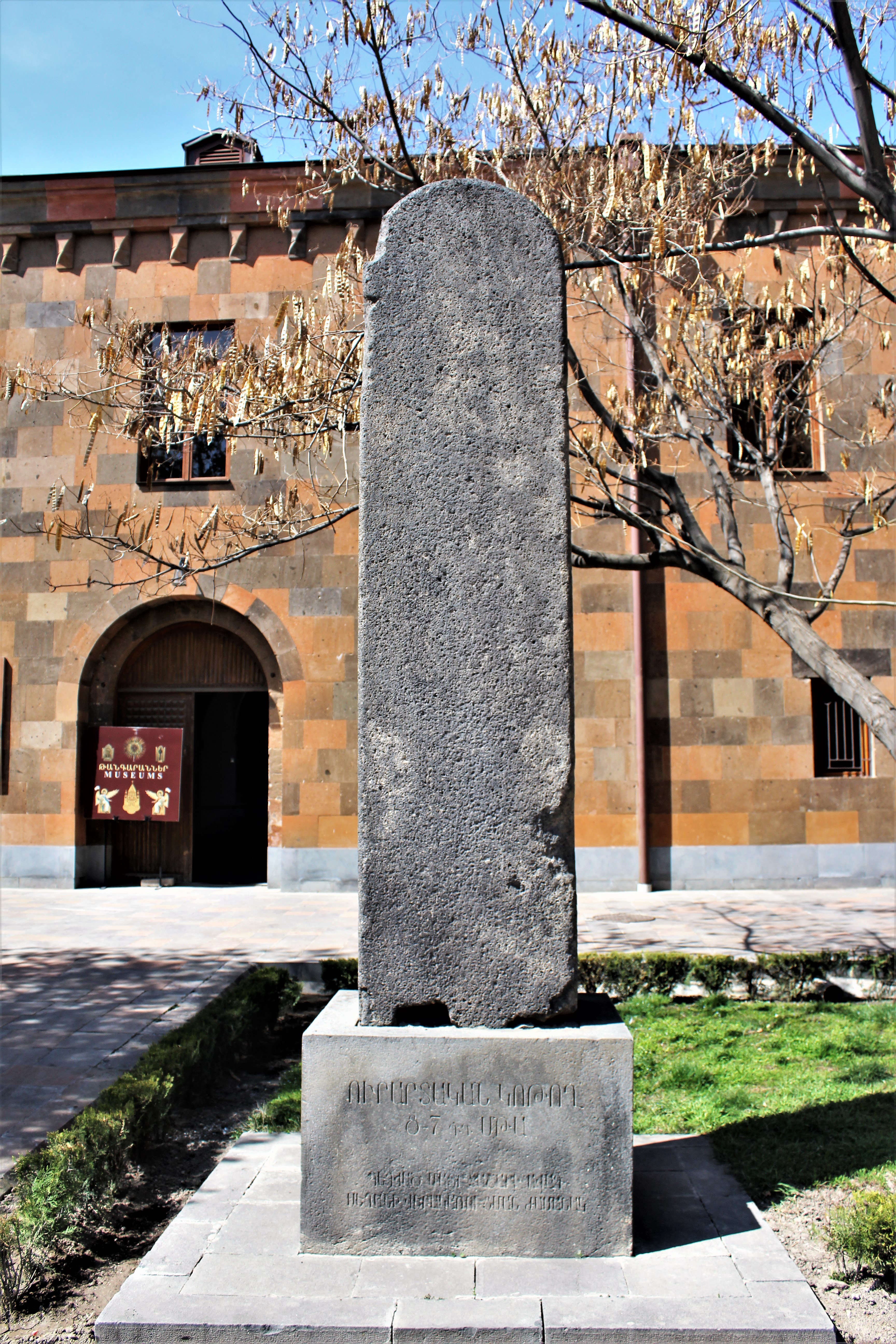 Urartian stella 8th-7th century BC, Echmiadzin 2/14.1.36